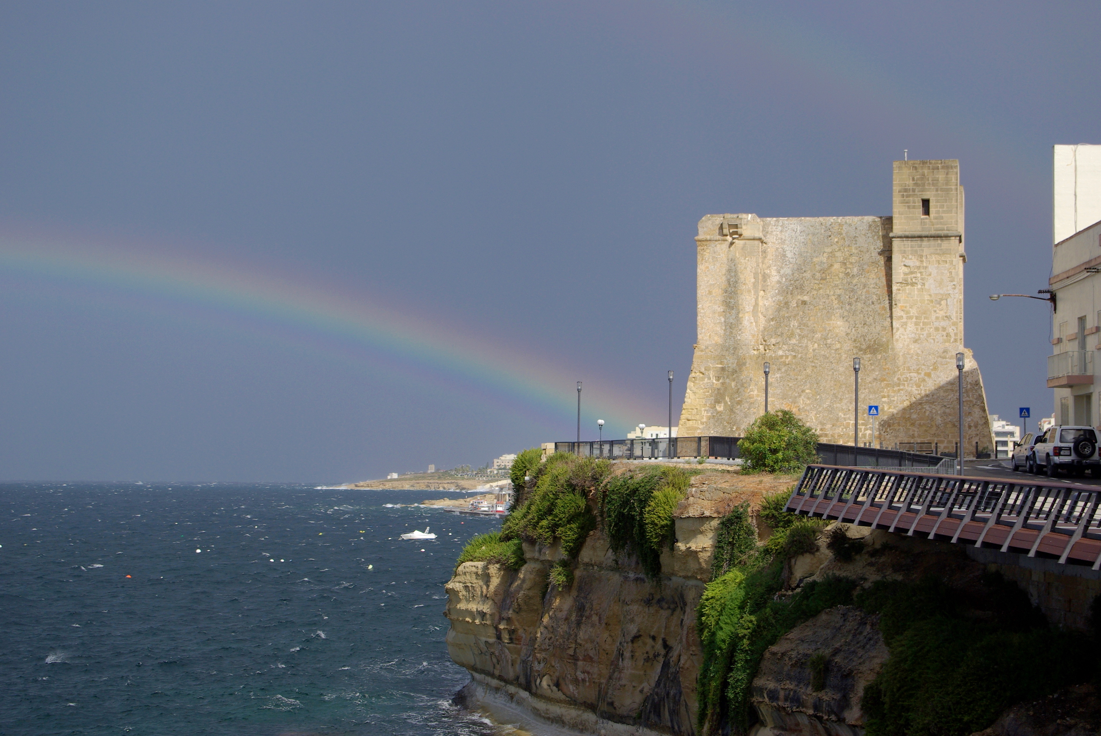 Malta, Wignacourt tower